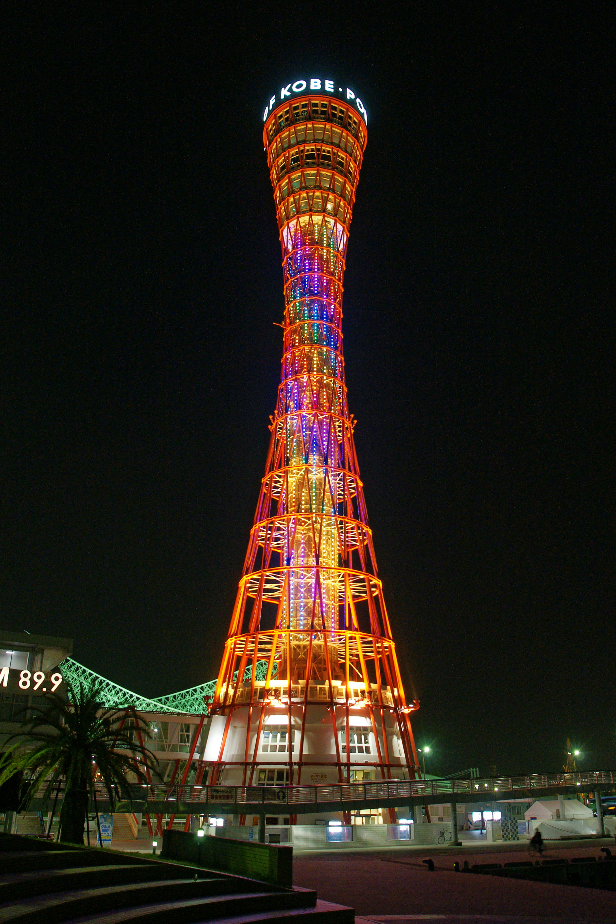 Kobe Port Tower in the Kobe harbor ( Kobe, Hyogo prefecture, Japan)